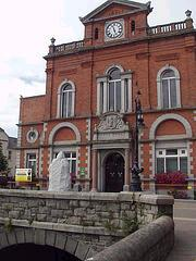 Photo of the Town Hall of Newry, taken from the Armagh side of the Clanrye River. Copyright (c) 2004 K Goss